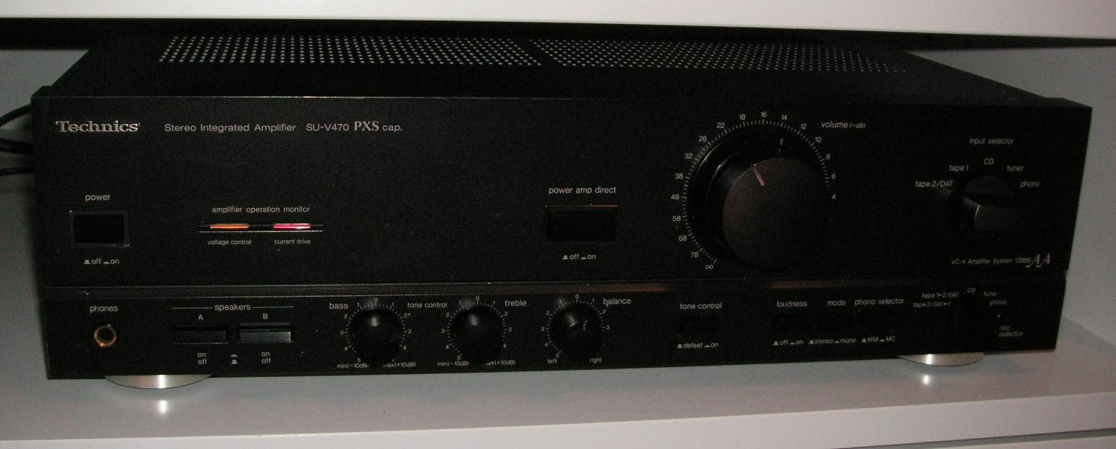 Technics SU-V470